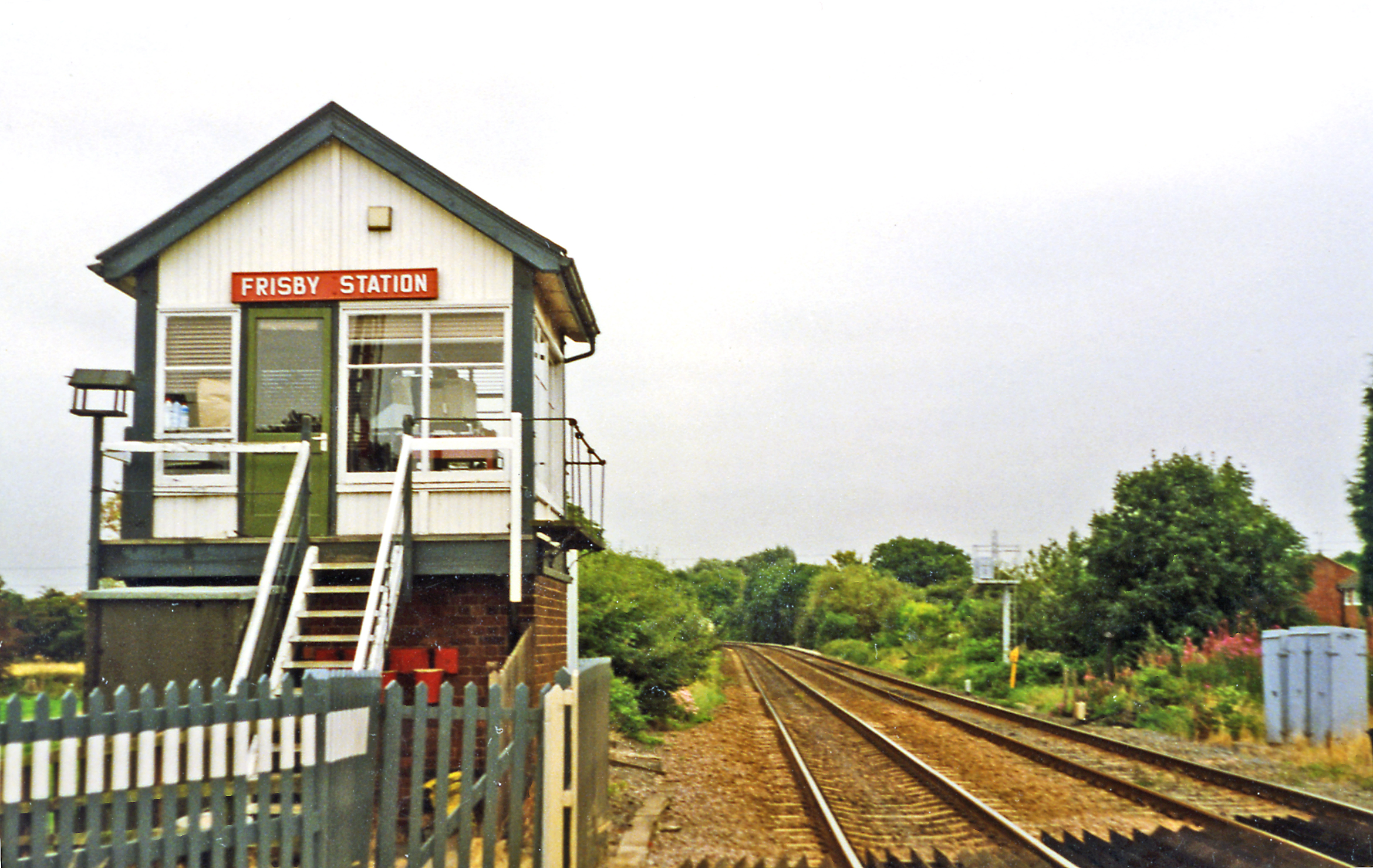 Signalbox at site of Frisby station, 1993. View eastward, towards Melton Mowbray and Peterborough: ex-Midland (Leicester) - Syston - Melton Mowbray - Saxby (- M&GN) system) - Manton - Peterborough secondary main line. The line to Peterborough remains open, but Frisby station had been closed since 3/7/61 - in spite of the sign on the signalbox, which had been altered when Andrew Tatlow took an identical view much more recently (2012)